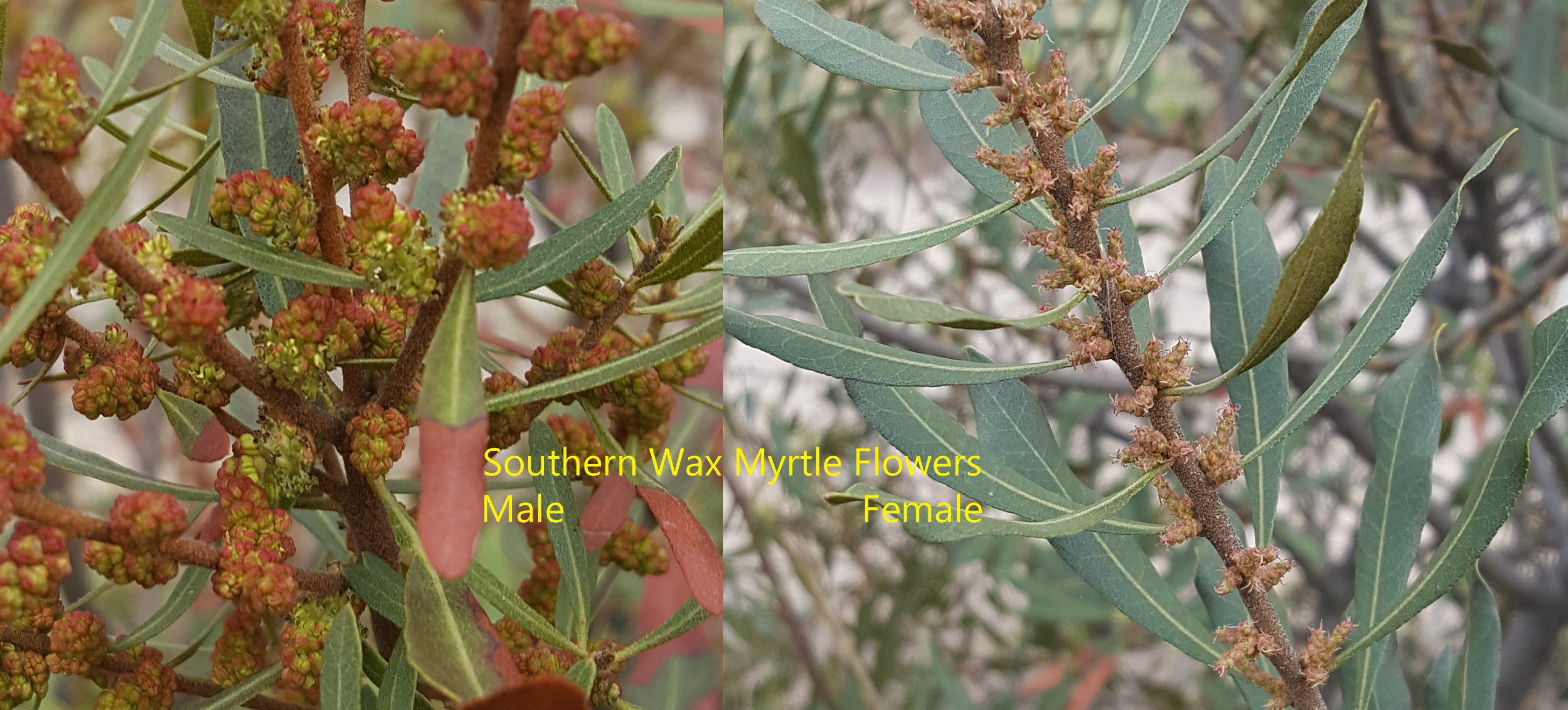 Showing the male and female flowers of the Southern Wax Myrtle (Myrica cerifera)